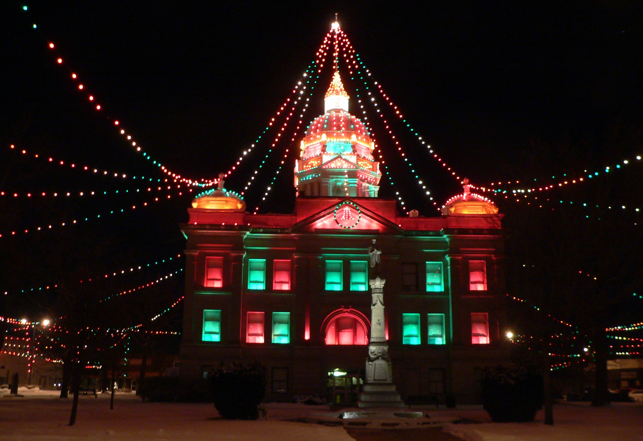 Kearney County, Nebraska courthouse in Minden, Nebraska, photographed with Christmas lights installed in courthouse square. View is from east.